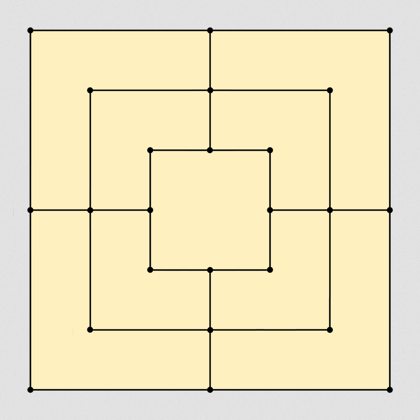 This .png file is a modification of public domain .svg file "Nine Men's Morris board with coordinates" by User:Elembis. Done in MS Paint.